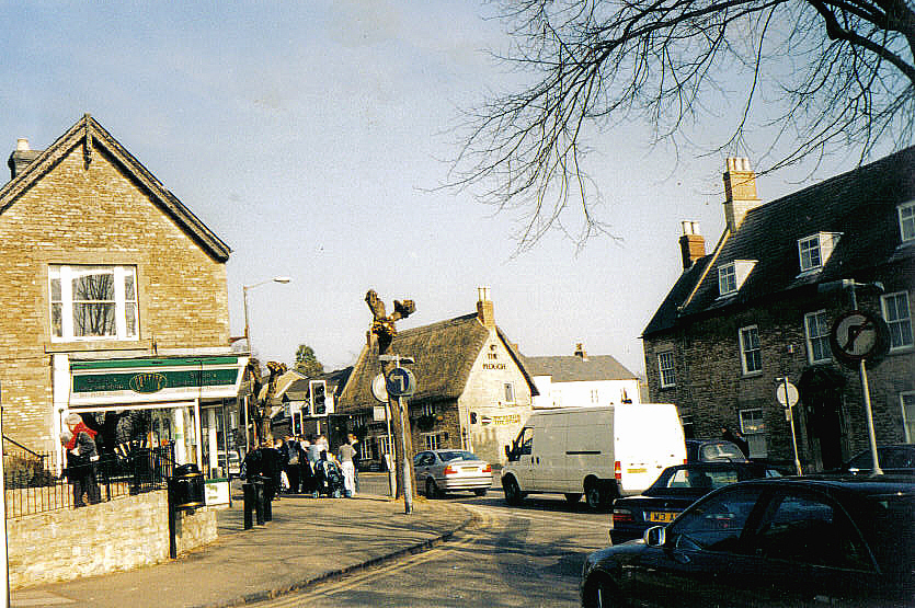 A picture I took of Brackley village, Northamptonshire, UK in 2004.